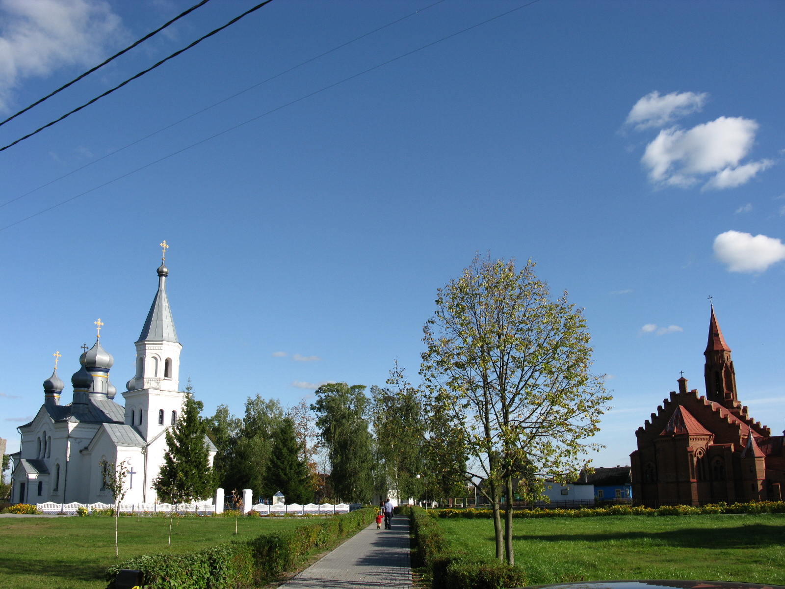 Orthodox church of Holy Trinity and Roman Catholic church of Saints Apostles Peter and Paul. Lahishin, Belarus.